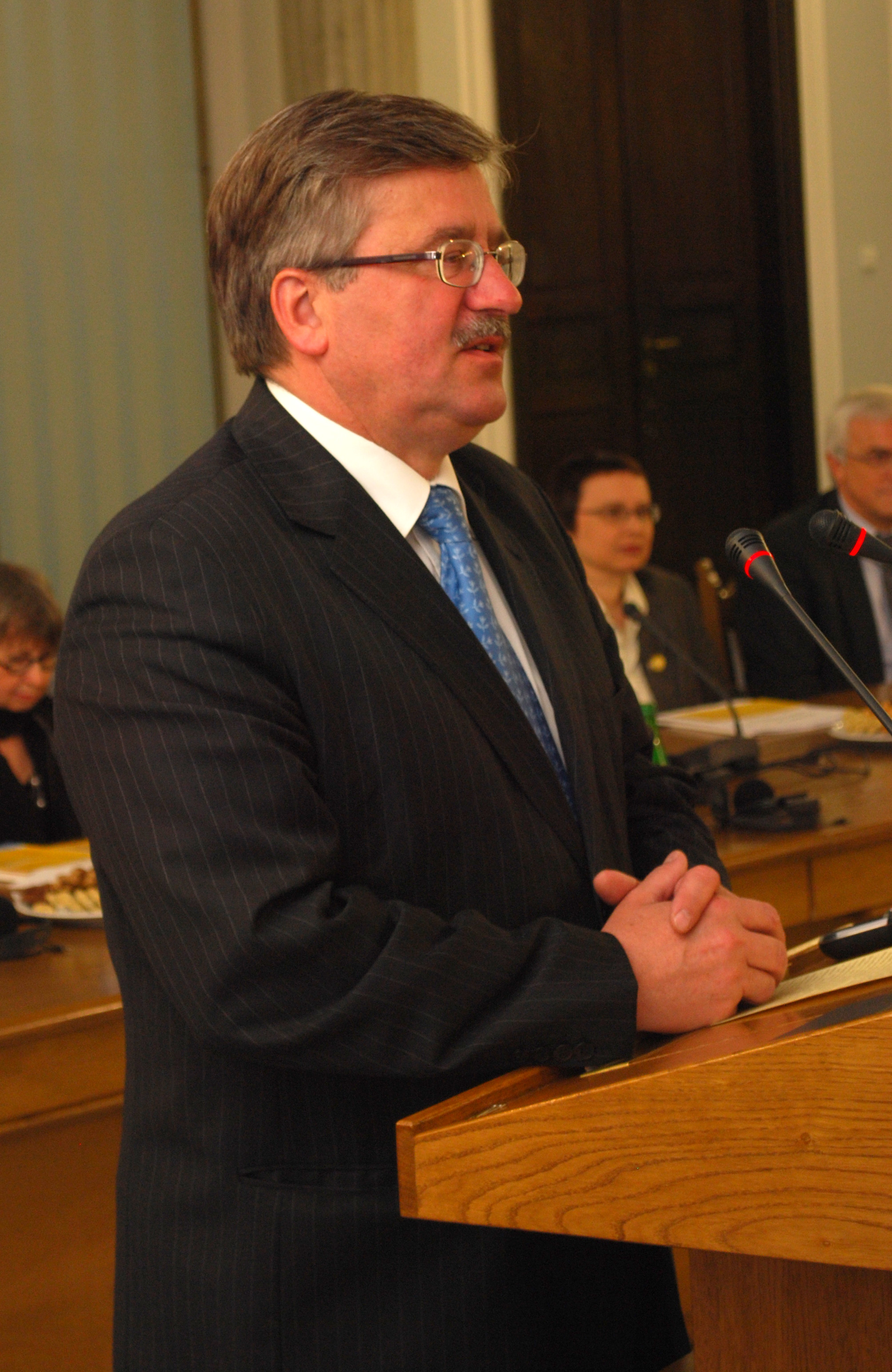 Open Educational Resources in Poland Conference, Polish Parliament. Bronisław Komorowski Marshal of the Sejm of the Republic of Poland